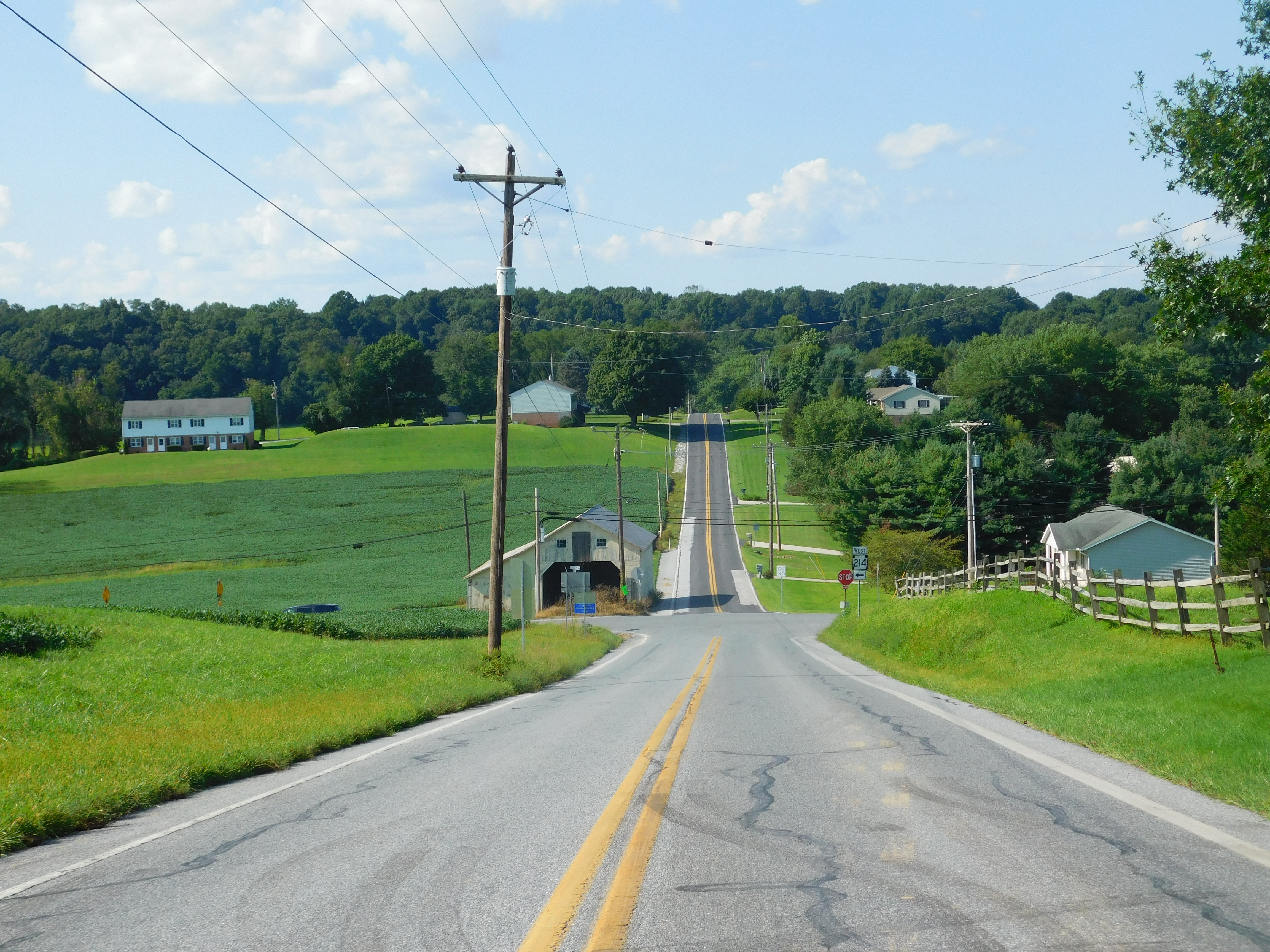 Pennsylvania Route 214 in Springfield Township, York County, Pennsylvania.